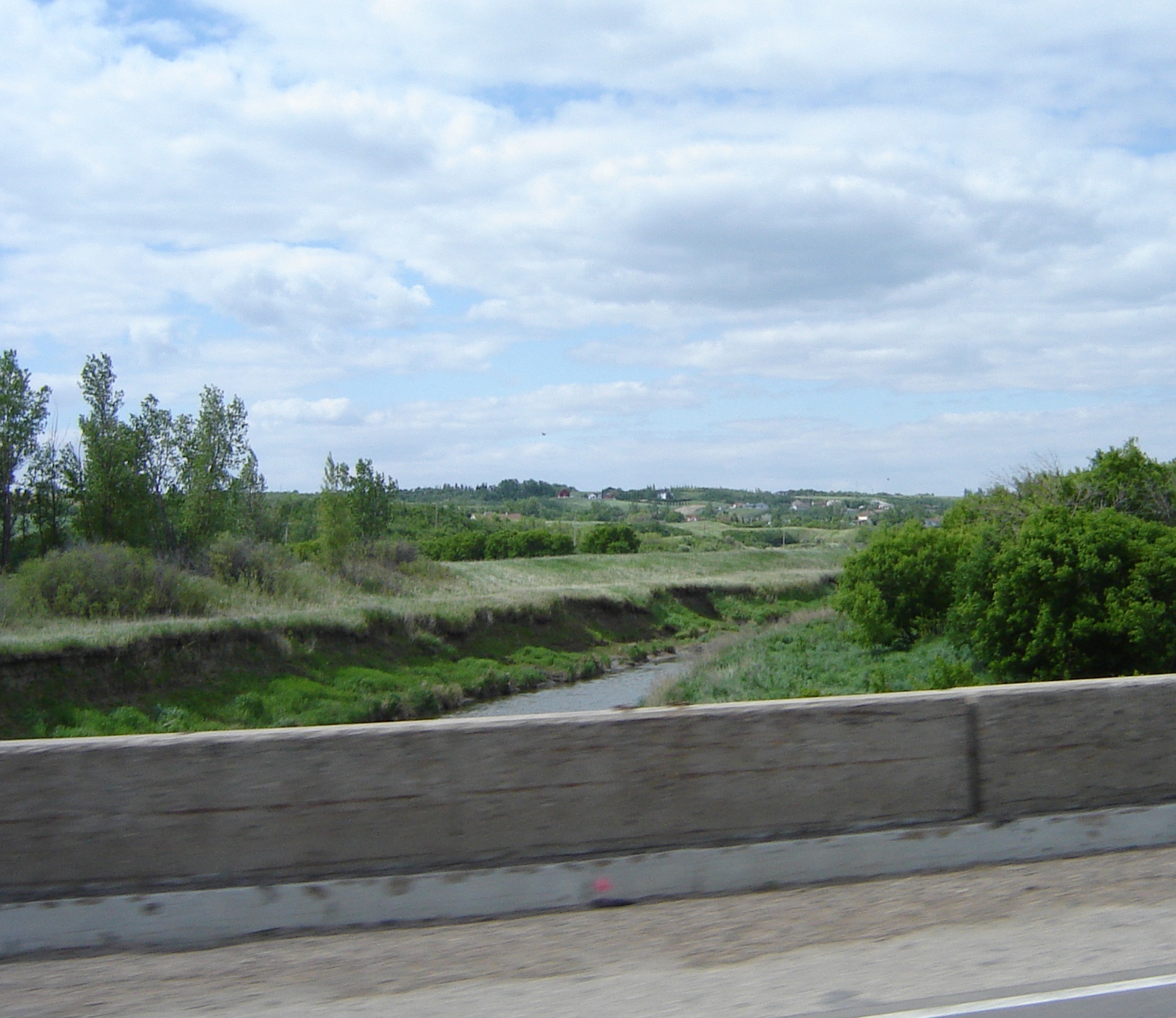 Qu'Appelle River Photo taken from Saskatchewan Highway 11, Louis Riel Trail travelling south from Saskatoon to Regina